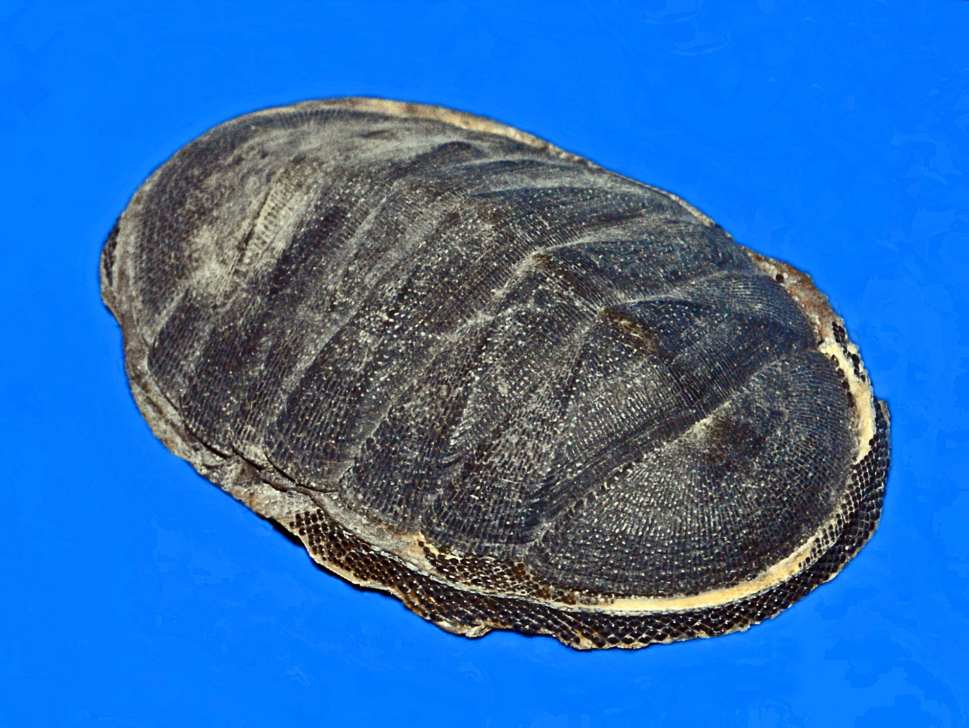 Museum specimen of Chiton magnificus from Chile